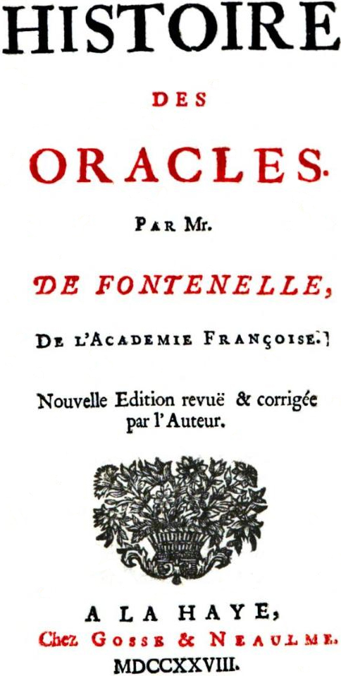 Title page from The History of Oracles (1686) by Fontenelle (1657-1757)